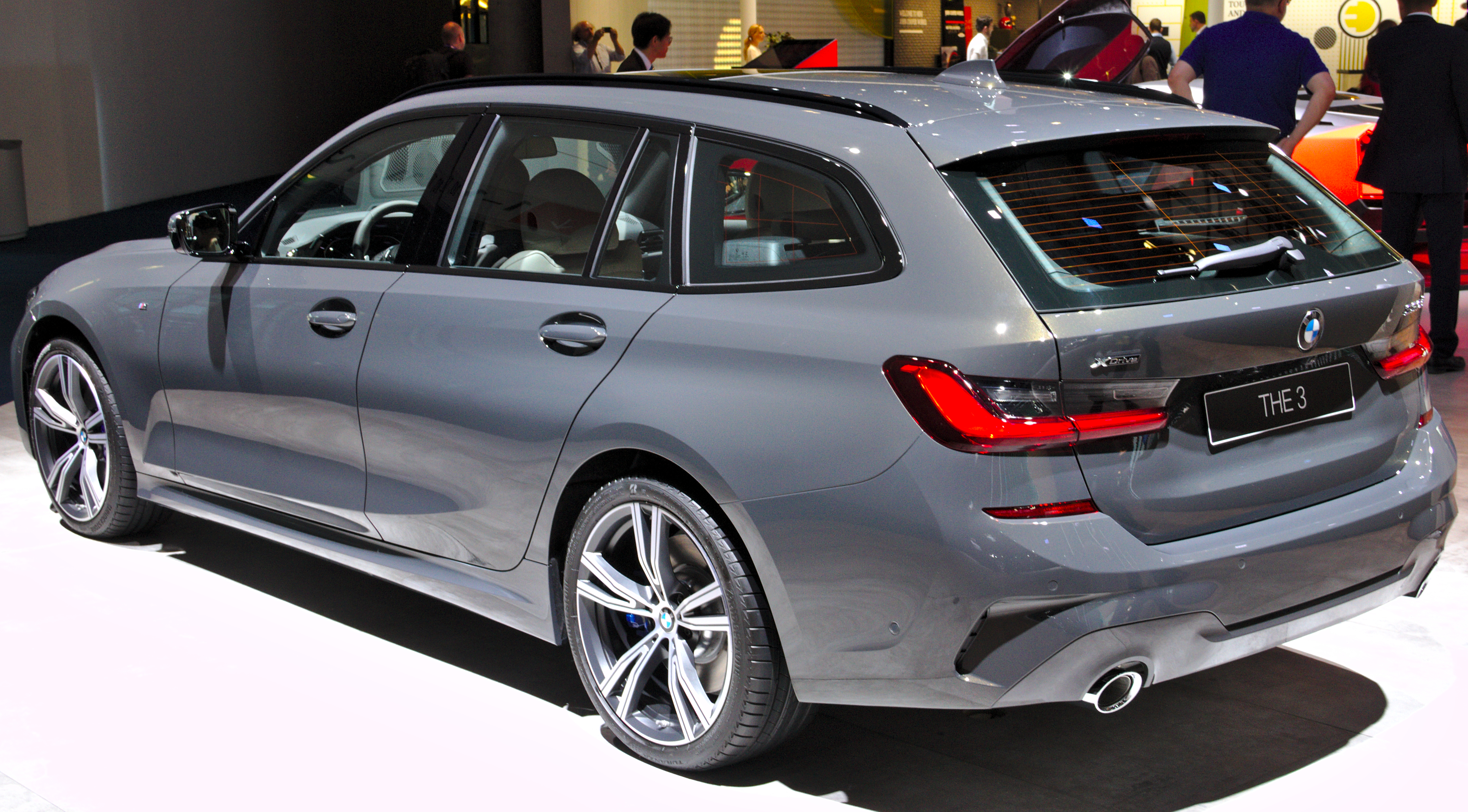 BMW_G21 at IAA 2019